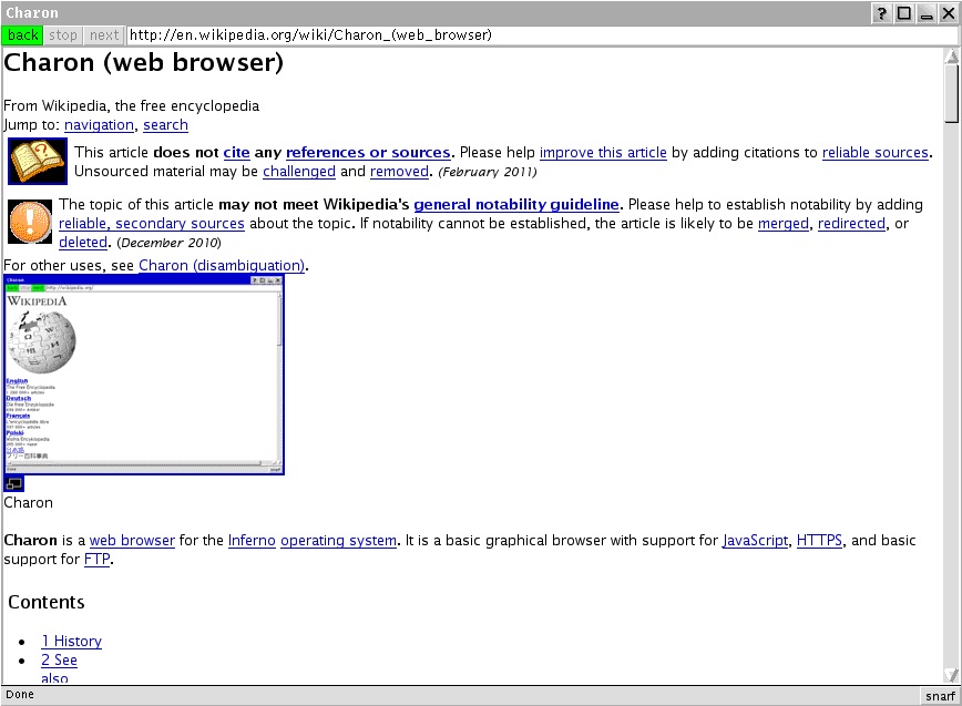 Charon showing its own Wikipedia article.